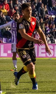 Real Valladolid - Rayo Vallecano, 18th fixture of the 2018-19 La Liga, January 5, 2019.